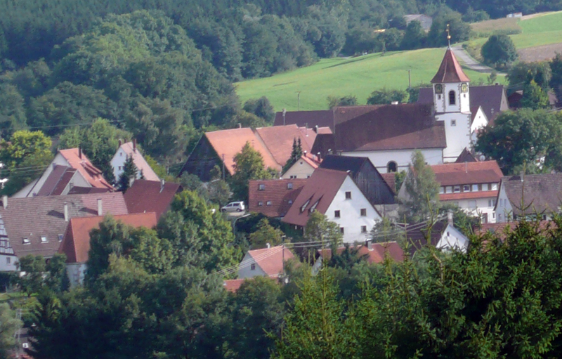 Erzingen (Balingen) - Baden-Württemberg, Germany